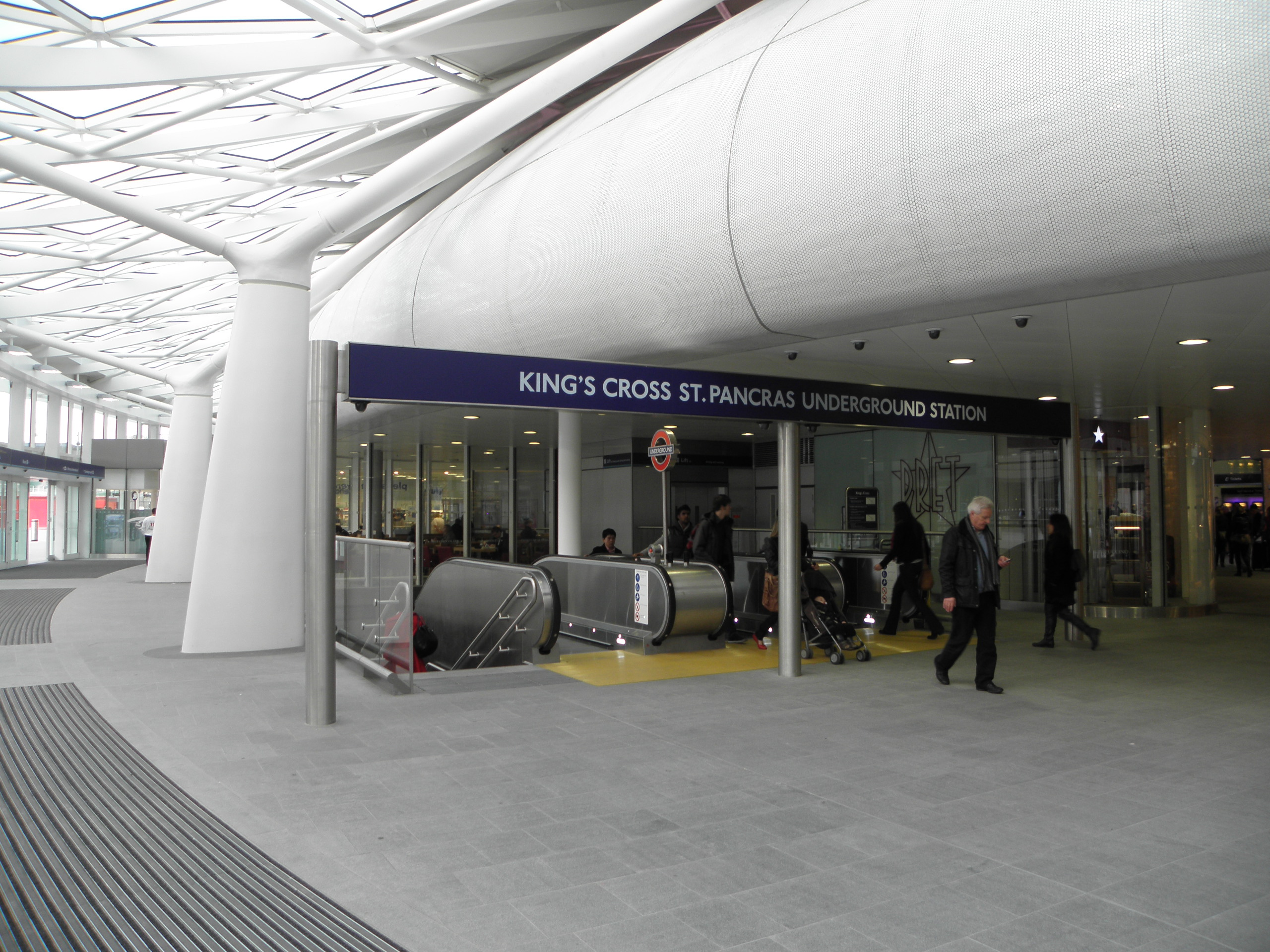 King's Cross St Pancras tube station western entrance in the new western concourse of King's Cross railway station